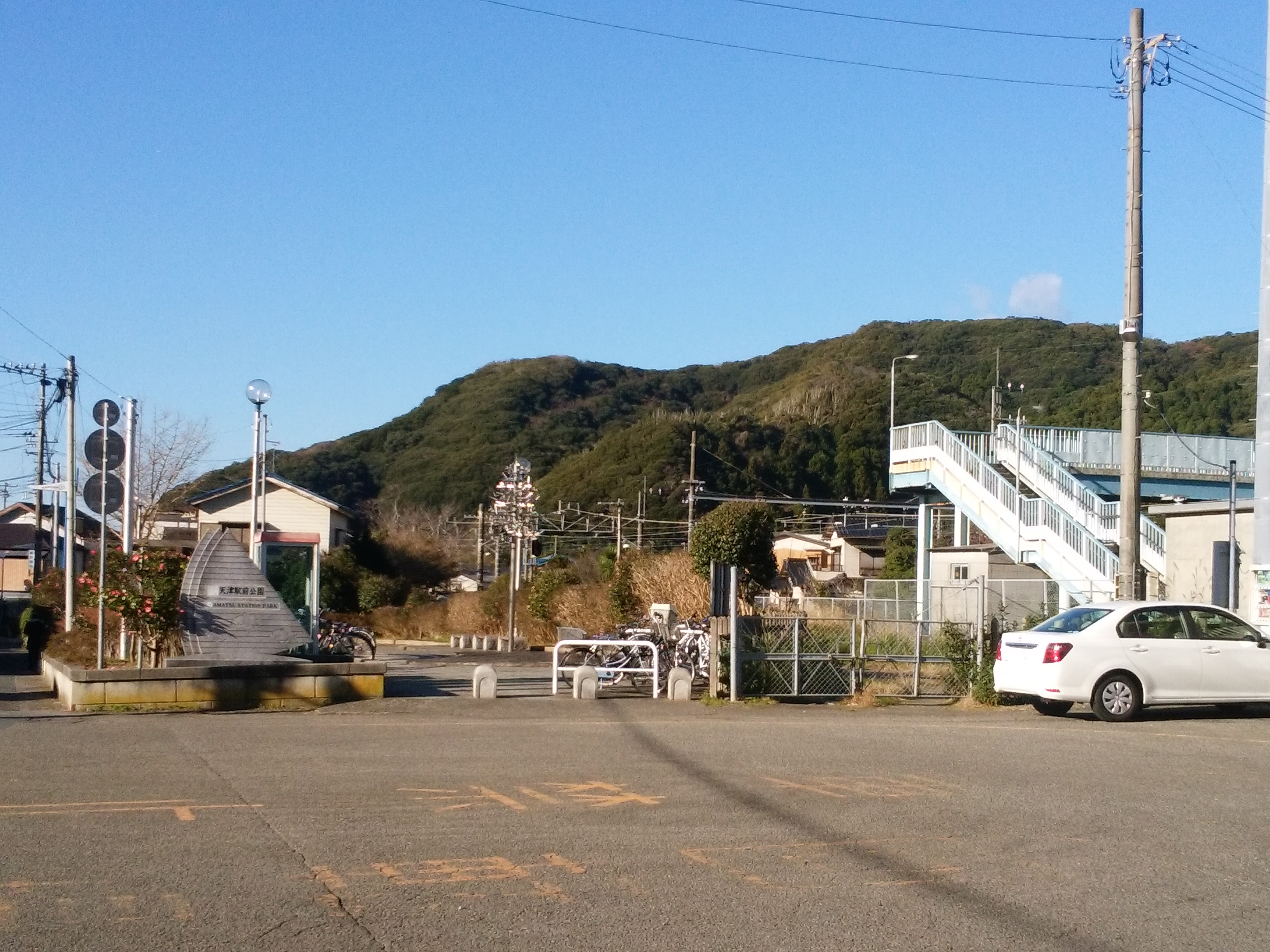 Amatsu, Kamogawa, Chiba Prefecture 299-5503, Japan